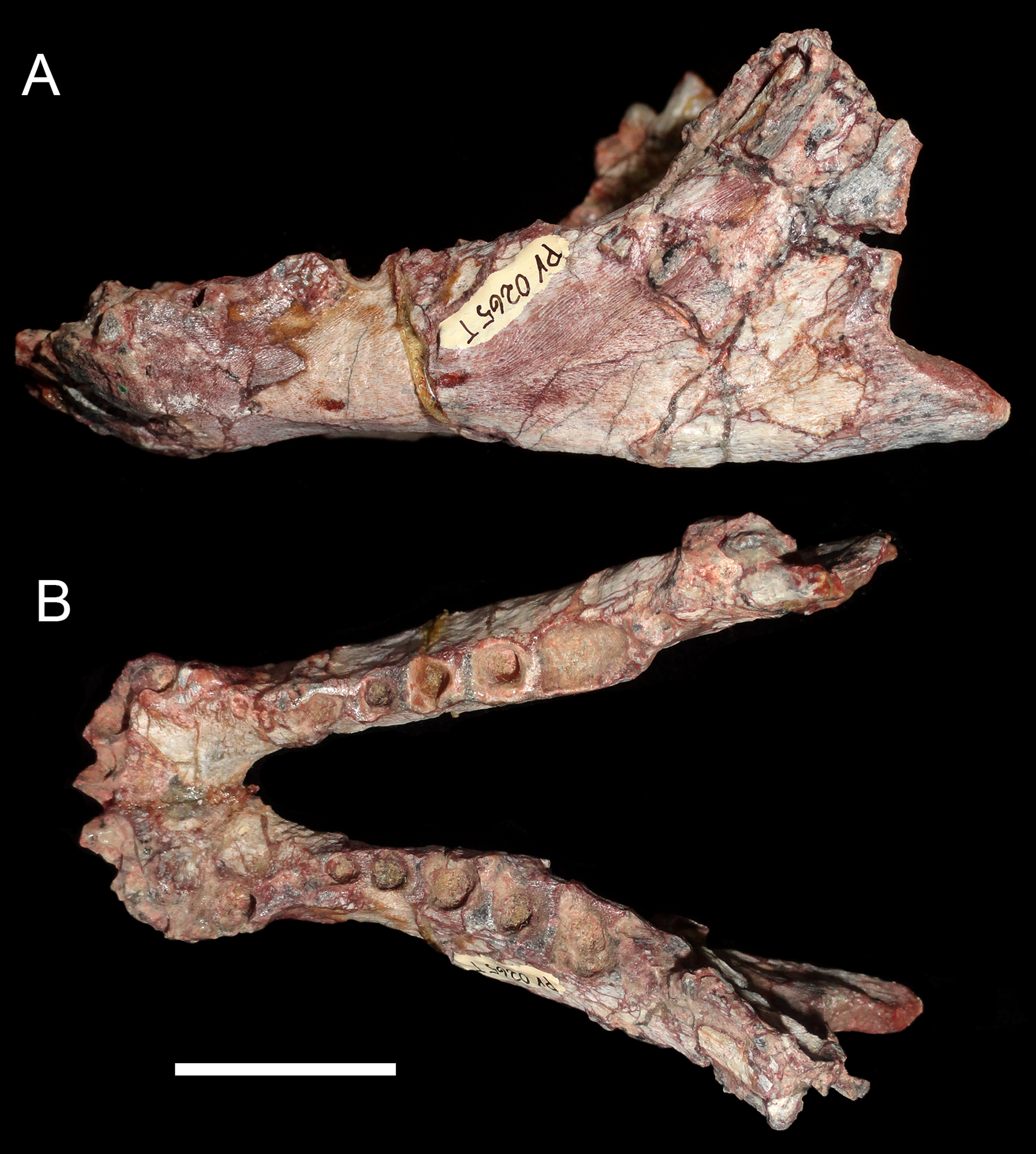 Specimen UFRGS-PV-0265-T of Luangwa sp. (Traversodontidae) from Vale Verde locality, Rio Grande do Sul State, Brazil. Lower jaws in lateral (A) and dorsal view (B). Scale bar equals 20mm.